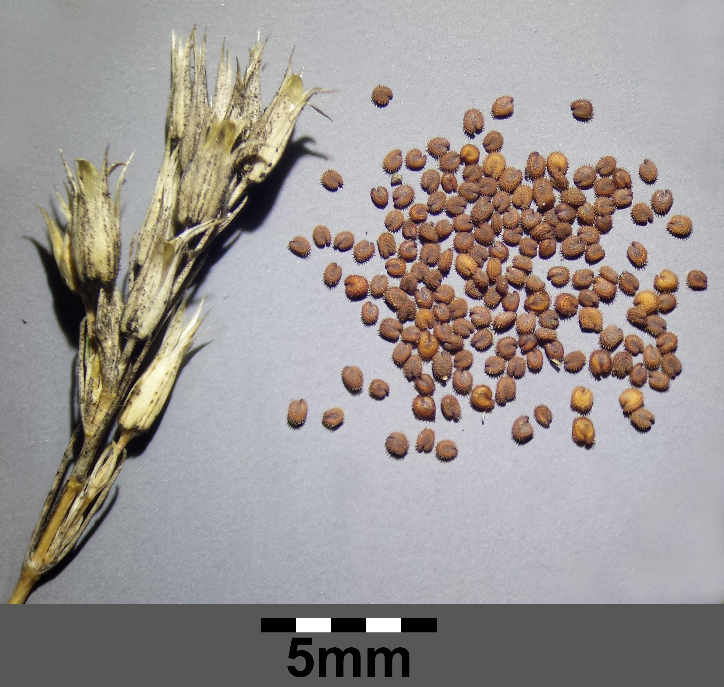 Infructescence and seeds Taxonym: Minuartia rubra ss Fischer et al. EfÖLS 2008 ISBN 978-3-85474-187-9 Location: Steinbacher Heide, Leiser Berge, district Korneuburg, Lower Austria - ca. 450 m a.s.l. (leg.: 2016-02-27) Habitat: rocks of limestone